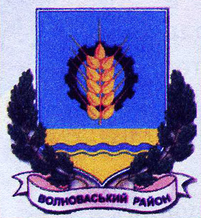 This coat of arms image could be recreated using vector graphics as an SVG file. This has several advantages; see Commons:Media for cleanup for more information. If an SVG form of this image is available, please upload it and afterwards replace this template with vector version available|new image name . This image was uploaded in the JPEG format even though it consists of non-photographic data. This information could be stored more efficiently or accurately in the PNG format or SVG format. If possible, please upload a PNG or SVG version of this image without compression artifacts, derived from a non-JPEG source (or with existing artifacts removed). After doing so, please tag the JPEG version with Superseded|NewImage.ext and remove this tag. This tag should not be applied to photographs or scans. For more information, see BadJPEG .